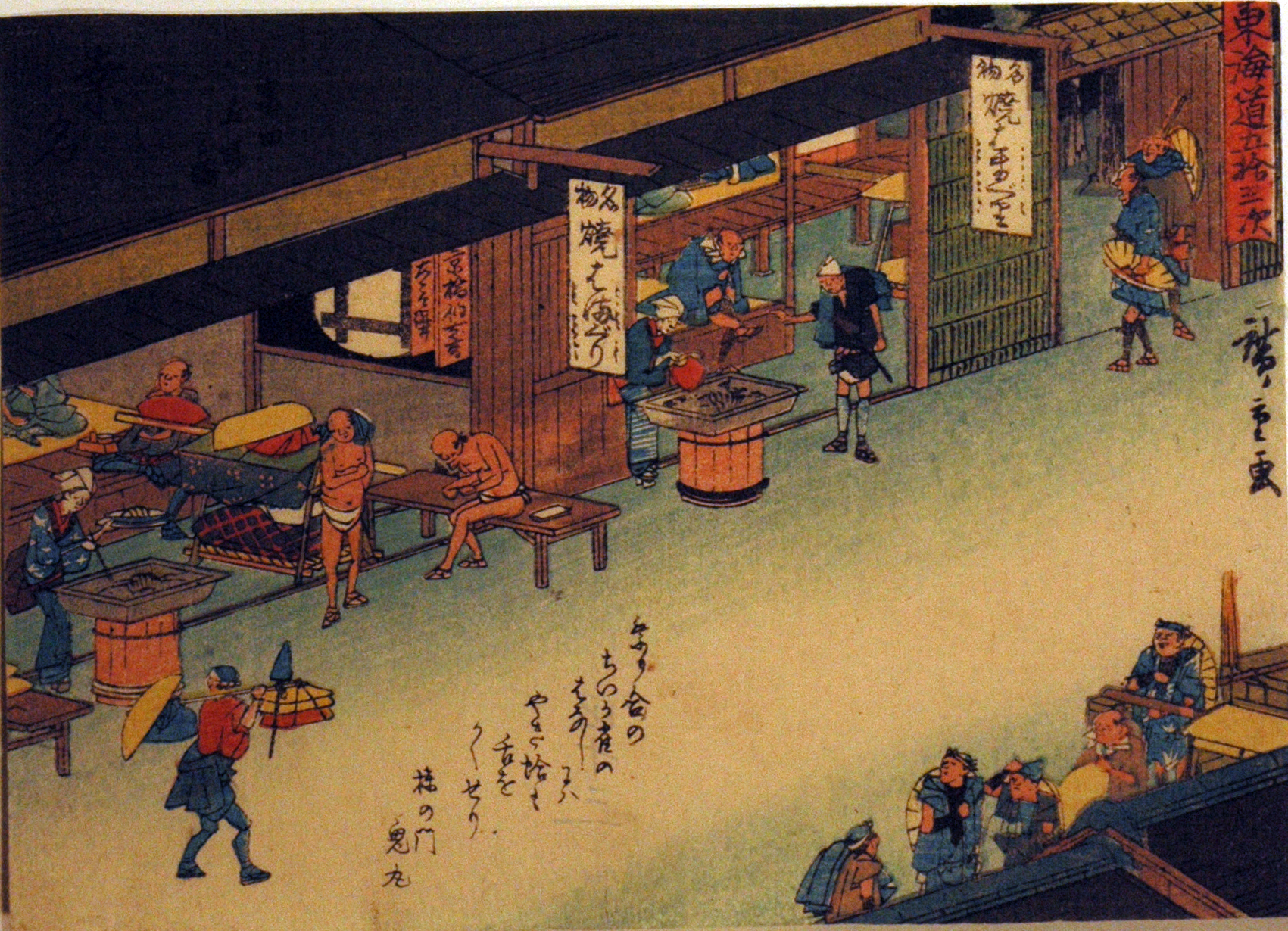 Accession Number: 1965.92.43 Display Artist: Utagawa Hiroshige Display Title: Kuwana: Tomida rest station (Kuwana, Tomida tateba no zu) Series Title: "Fifty-three Stations of the Tokaido Road, known as "Kyoka Tokaido"" Suite Name: Tokaido gojusantsugi Creation Date: 1838-1840 Height: 5 3/4 in. Width: 8 in. Display Dimensions: 5 3/4 in. x 8 in. (14.61 cm x 20.32 cm) Publisher: Sanoya Kihei Credit Line: Gift of Mrs. Harold Rhody Witherbee Collection: The San Diego Museum of Art